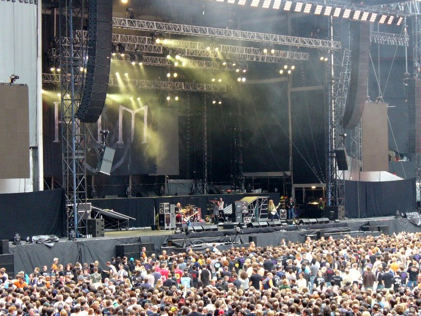 HIM supporting Metallica at Wembley Stadium in London, England, on 8 July 2007.